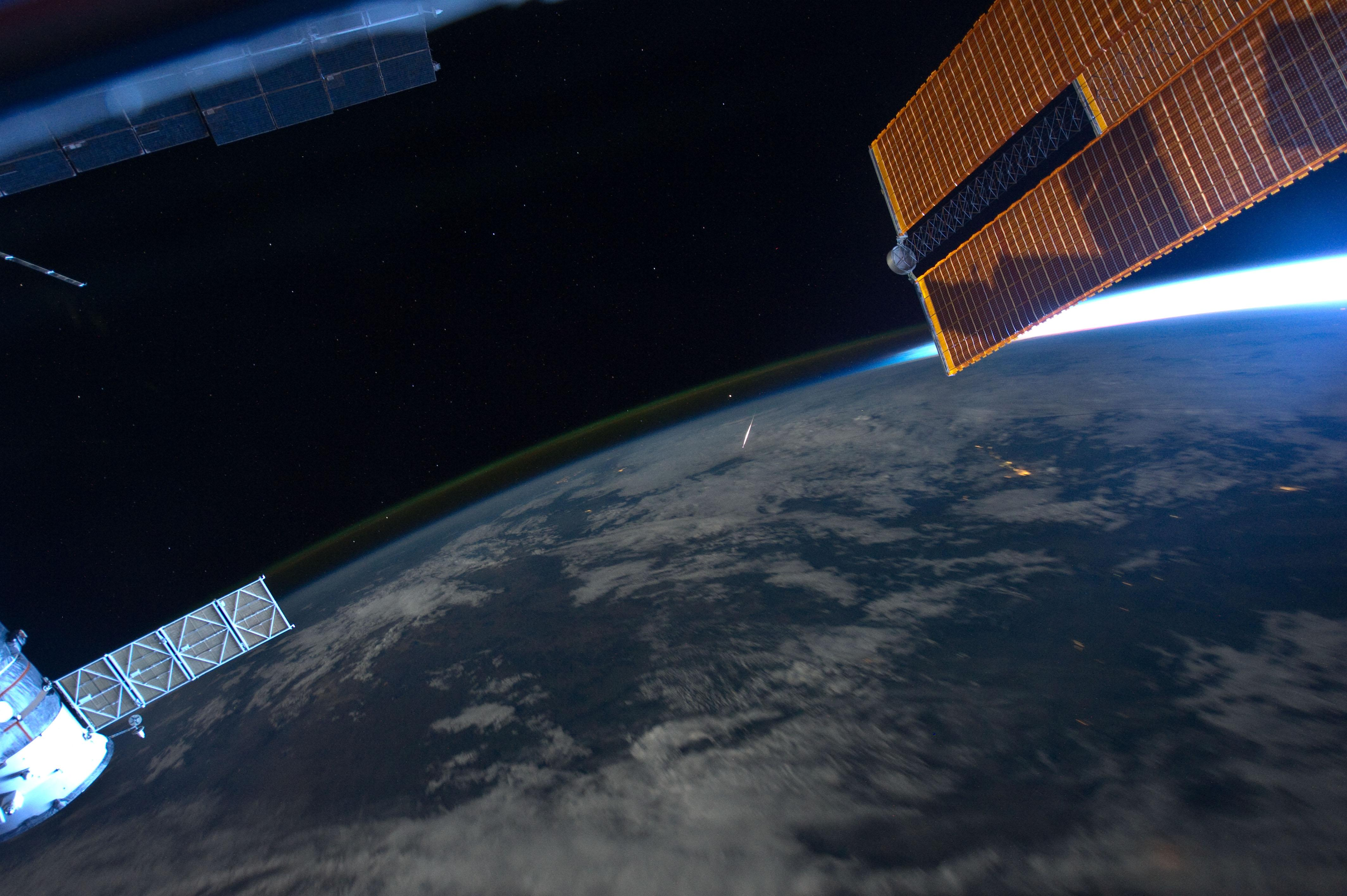 Astronaut Ron Garan, Expedition 28 flight engineer, tweeted this image from the International Space Station on Aug. 14 with the following caption: "What a 'Shooting Star' looks like from space, taken yesterday during Perseid Meteor Shower." The image was photographed from the orbiting complex on Aug. 13 when it was over an area of China approximately 400 kilometers to the northwest of Beijing. The rare photo opportunity came as no surprise since the Perseid Meteor Shower occurs every year in August. The meteors are particles that originate from the comet Swift-Tuttle along its orbital path; the comet's orbit is close enough for these particles to be swept up by the Earth's gravitational field each year. Green and dim yellow airglow appears as thin layers visible above the limb of the Earth, extending from image left to upper image right. Atoms and molecules above 50 kilometers in the atmosphere are excited by sunlight during the day, and then release this energy at night producing primarily green light observable from orbit. The sun is low on the horizon as it appears near part of one of the station's solar panel arrays at image upper right.